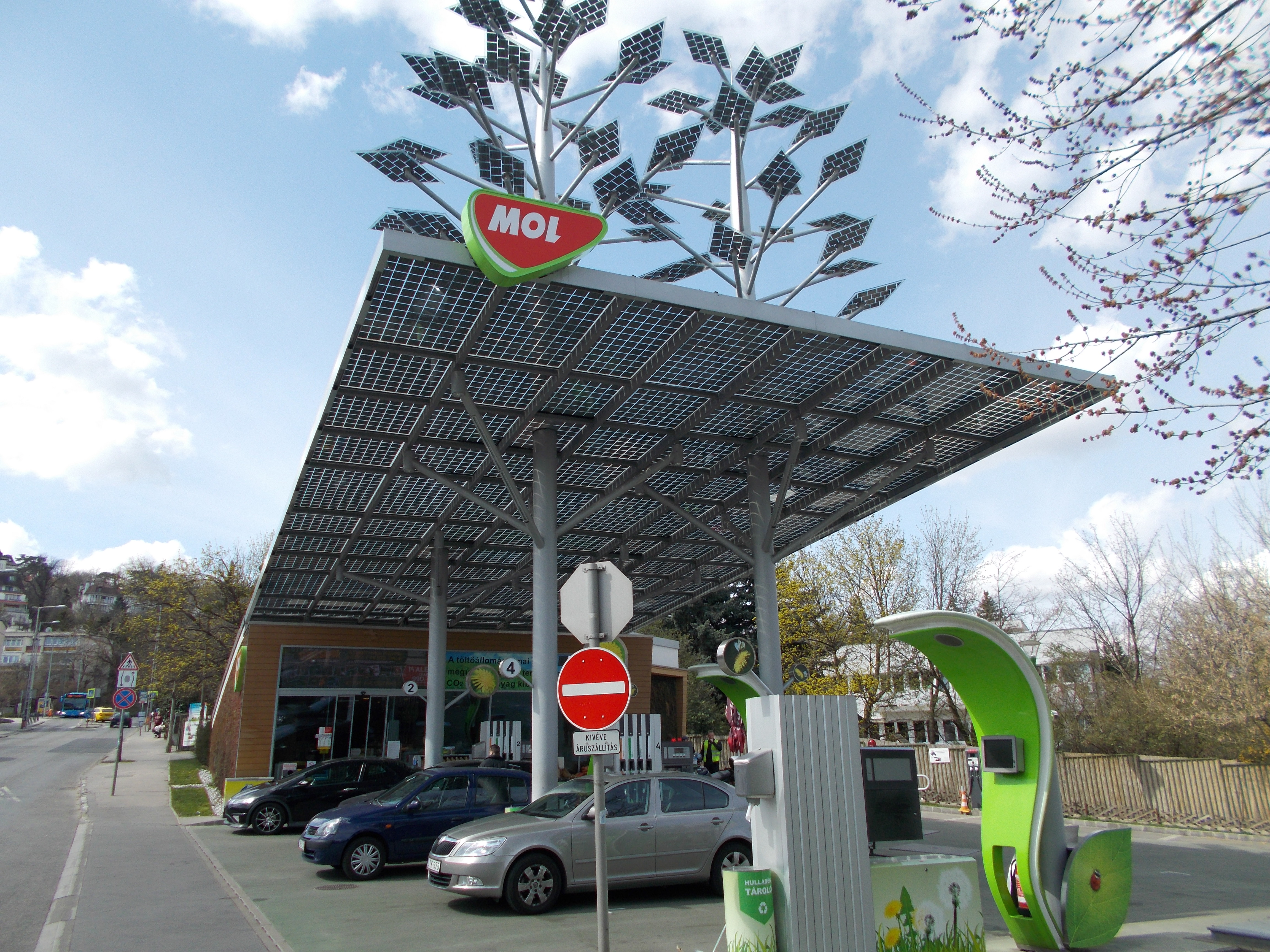 Eco MOL (solar powered) petrol station. - Istenhegyi Street, Budapest District XII., Hungary.